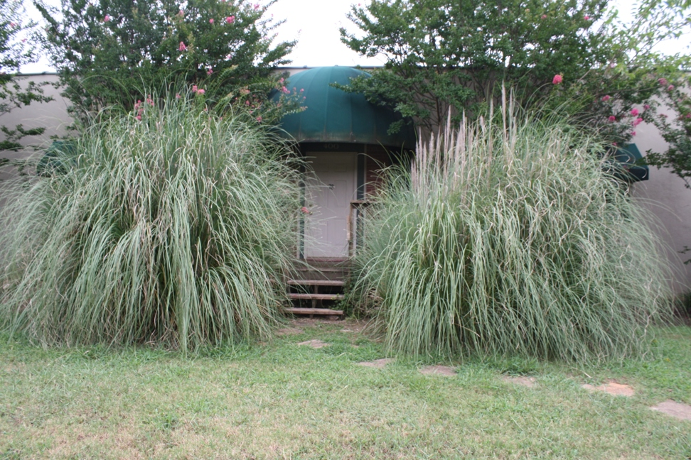 The original building housing former WMRB (now WPCI), 1490 AM radio station on 78 Mayberry Street, Greenville, SC.